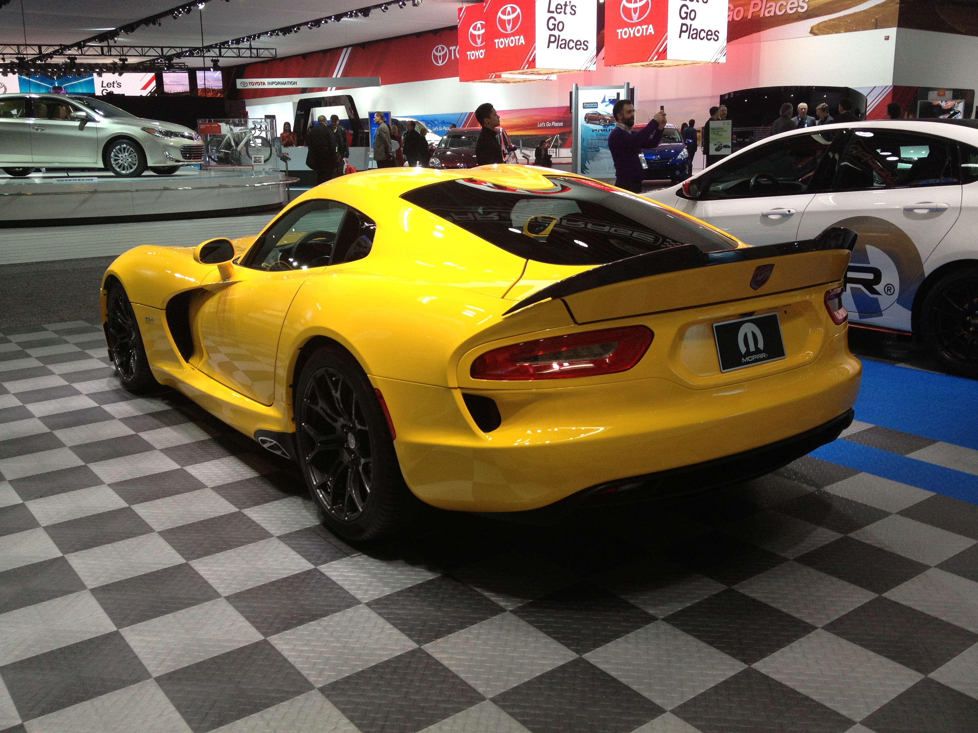 Una SRT Viper 14 gialla 2013 North American International Auto Show Detroit, Michigan